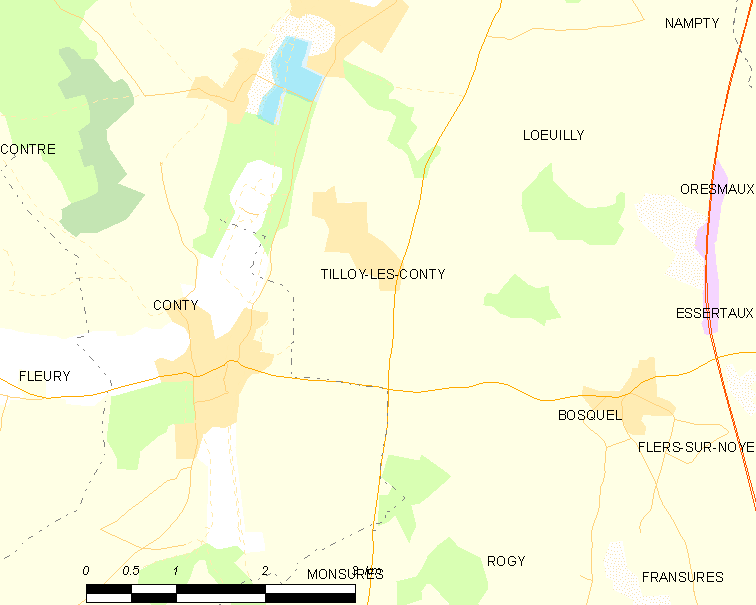 Map of French municipality Tilloy-lès-Conty